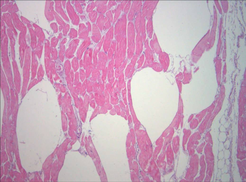 Postoperative pathologic findings of the muscle tissue obtained during surgical removal. Haematoxylin-Eosin-stain, zoom 100×. Infected tissue with gas-inclusion between the muscle-fibres can be seen.